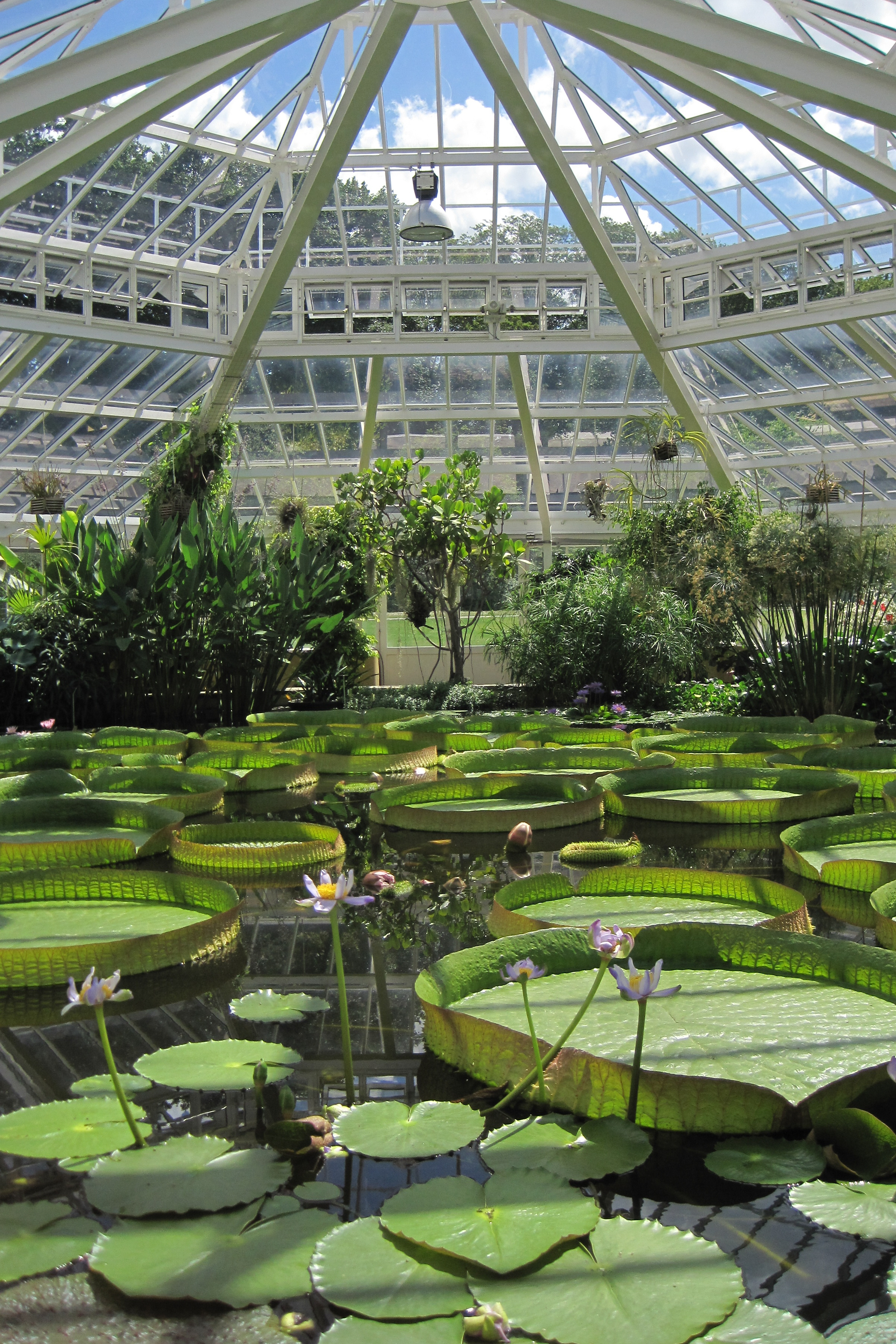 Meise (Belgium), National Botanic Garden of Belgium - The Victoria House.